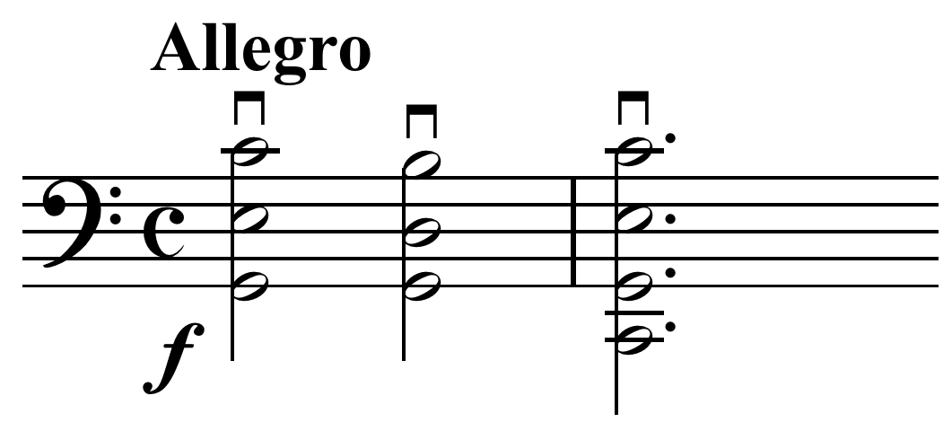 Cello double stops from the opening of Jean-Baptiste Breval's (1753-1823) Sonata in C major for cello and piano.